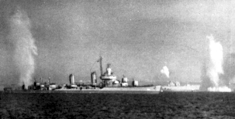 The U.S. Navy destroyer USS Charles F. Hughes (DD-428) under German attack in Nettuno Bay, during the Allied invasion at Anzio. She is painted in Measure 22 camouflage.